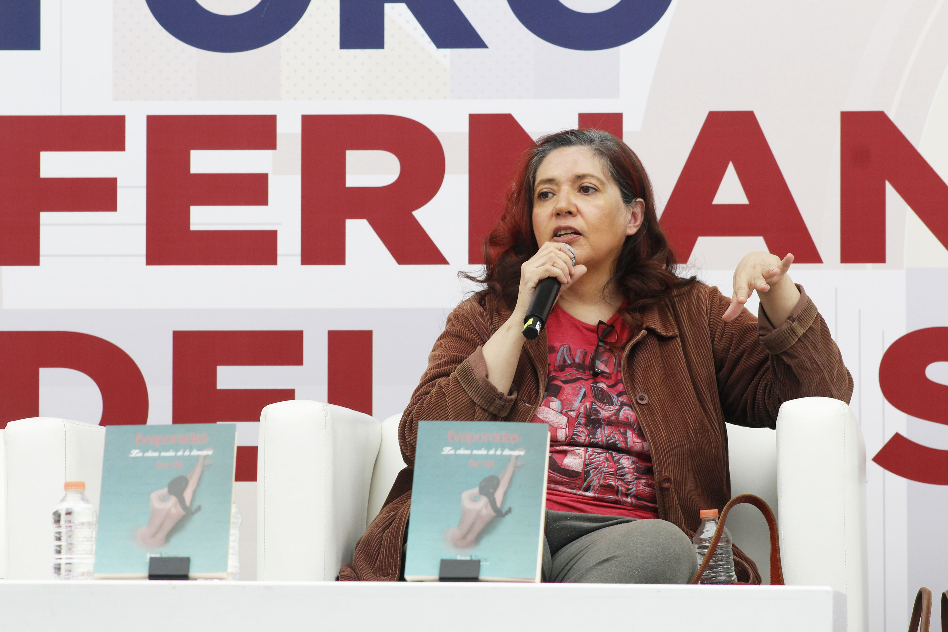 Eve Gil at a book presentation in Mexico City. Monday, 15 July, 2019. Picture by Itzel Romero / Secretaria de Cultura de la Ciudad de Mexico.